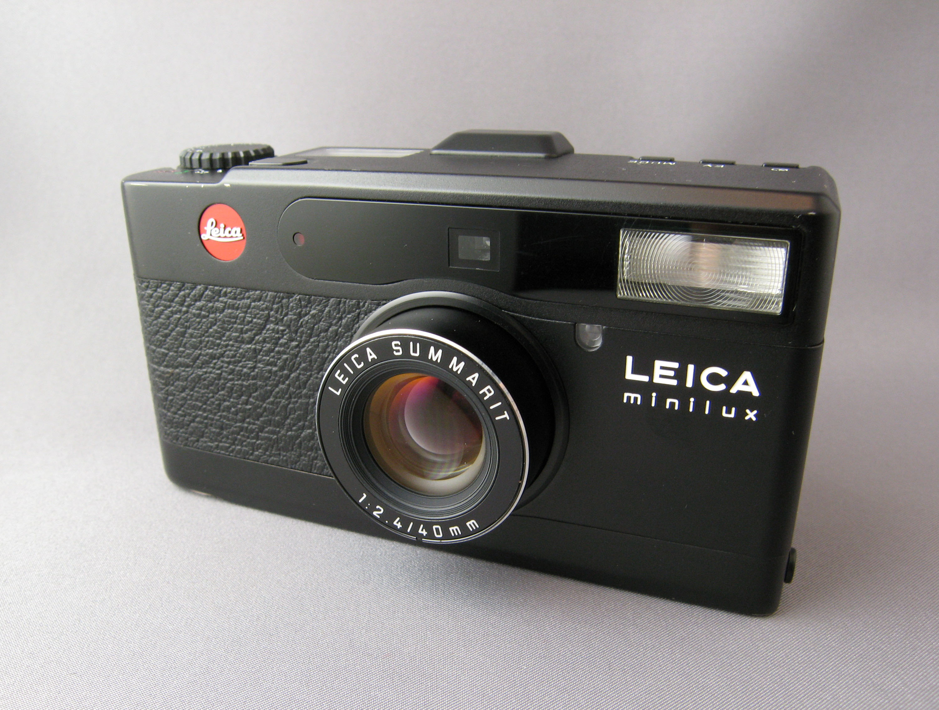 "LEICA minilux" Summarit f2.4/40